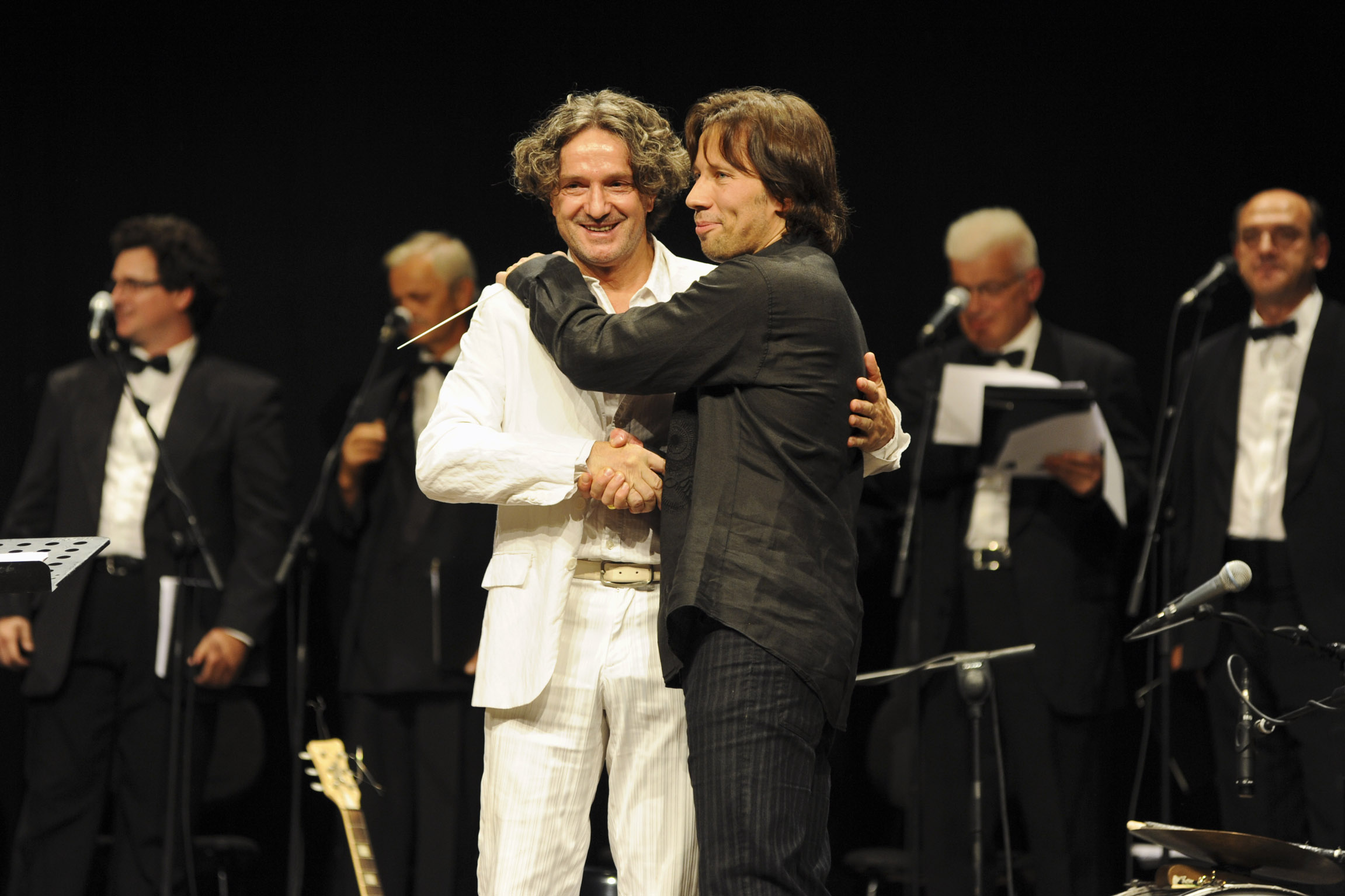 Goran Bregovic (left) and Kristjan Järvi (right), and Wedding and Funeral Band with Kristjan Järvi's Absolute Ensemble in teatro Manzoni, Milan